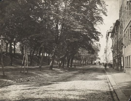 Filosofgangen, now Vester Voldgade, approximately where Hovedbrandstationen is today, in Copenhagen, Denmark